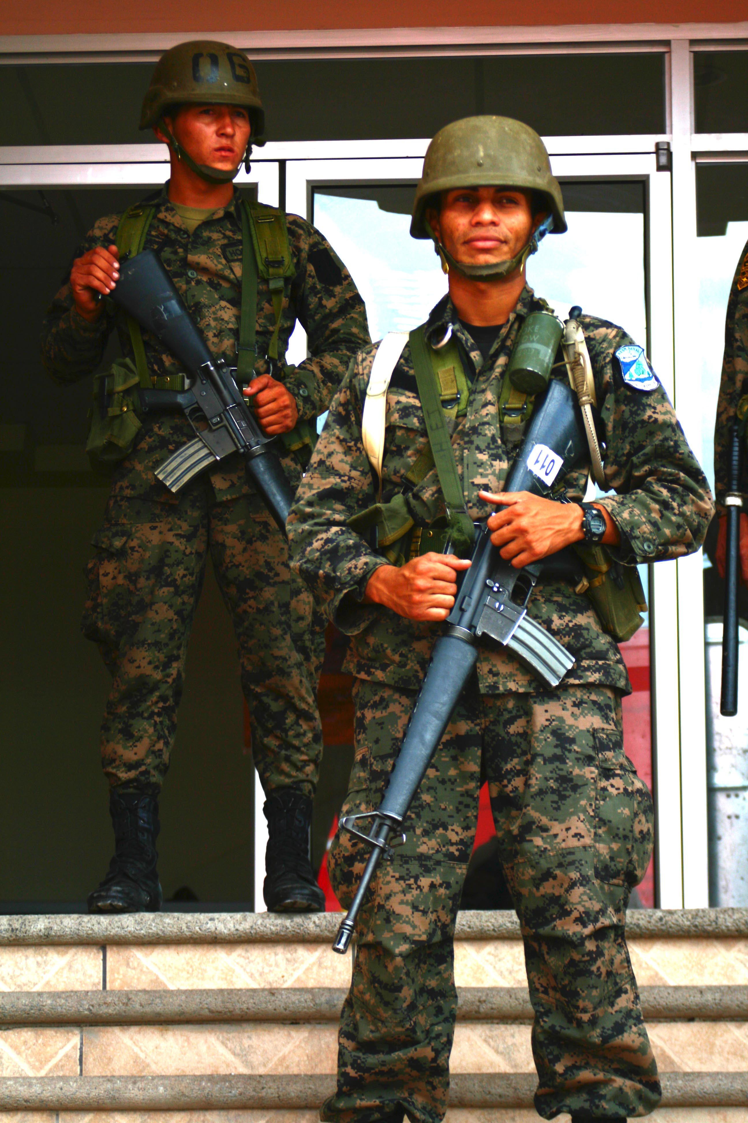 2009 Honduran coup d'état